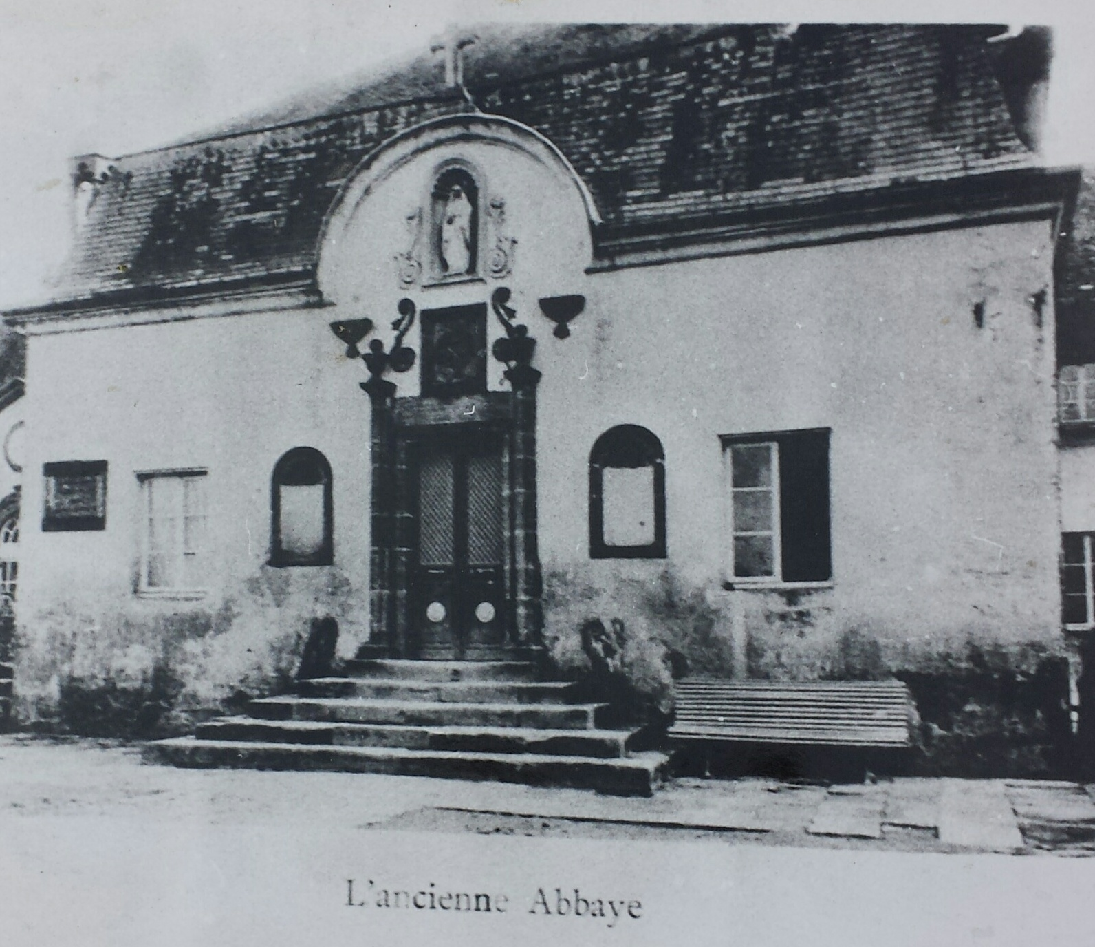 The Ovens of the Abbey of Juvigny (Meuse, france)